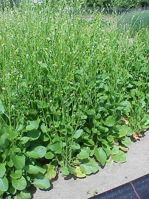 Species: Crambe abyssinica Family: Brassicaceae Image No. 2